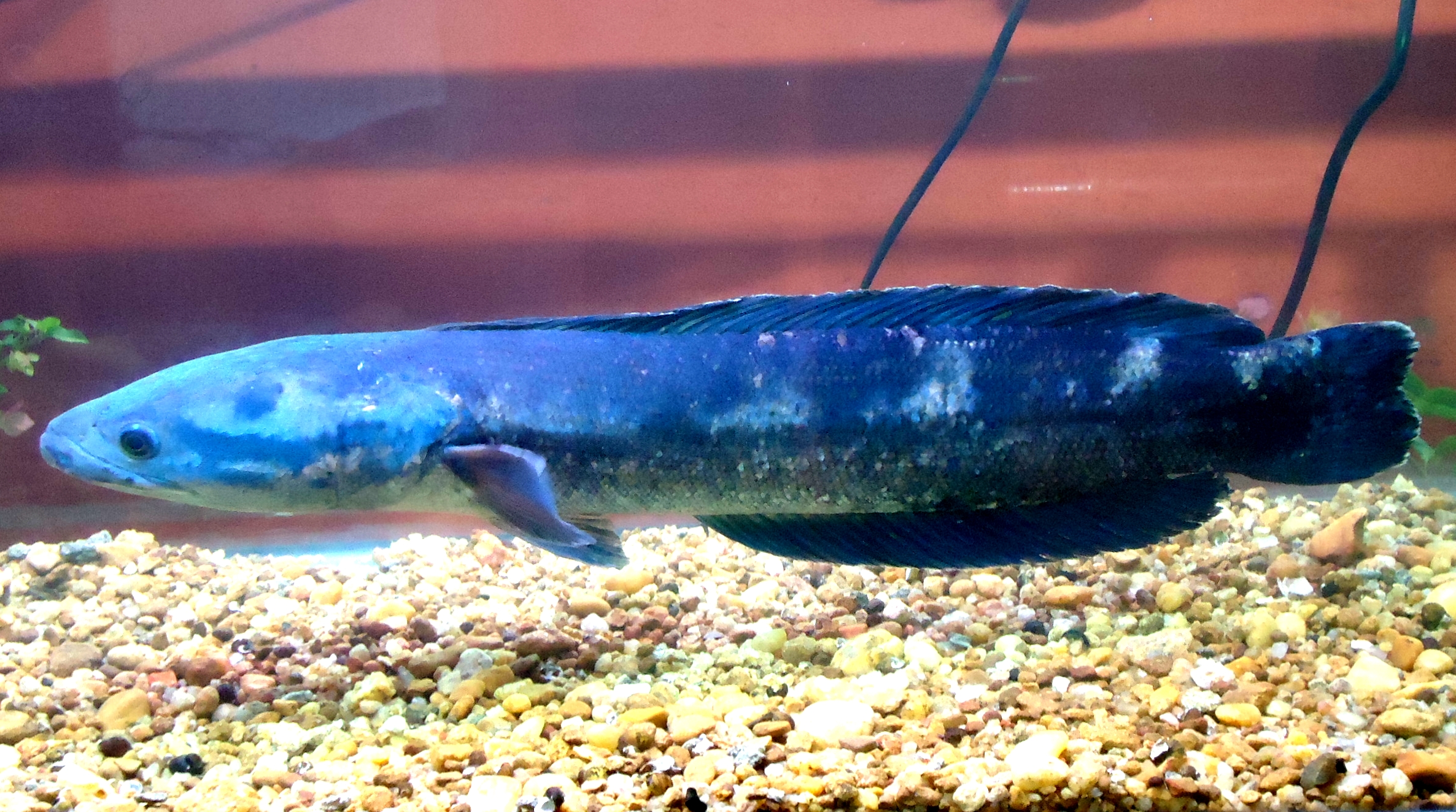 This media file is uploaded with Malayalam loves Wikimedia event - 2. Long Black Fish